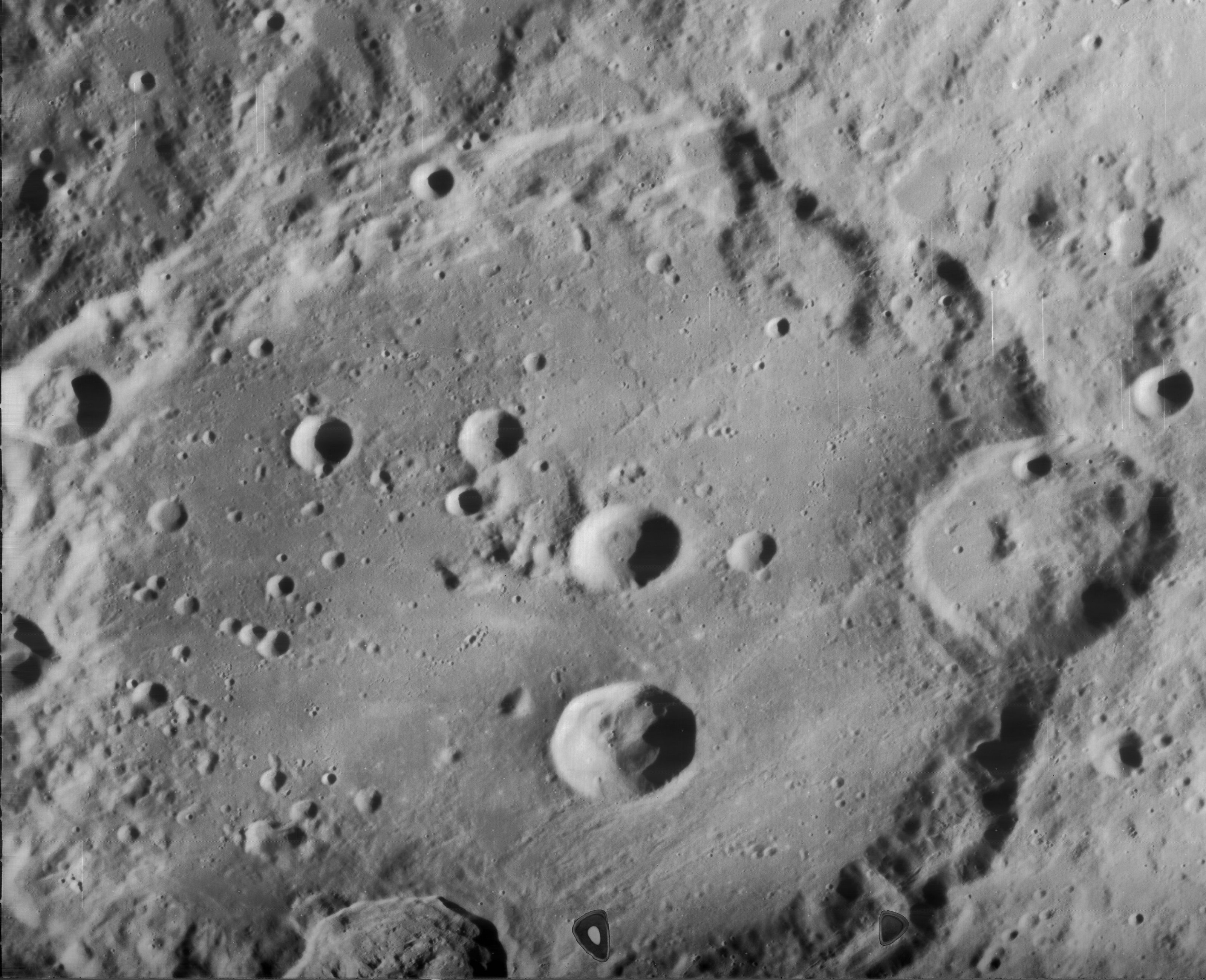 Slightly oblique view of most of Clavius, on the moon. North is to upper right.